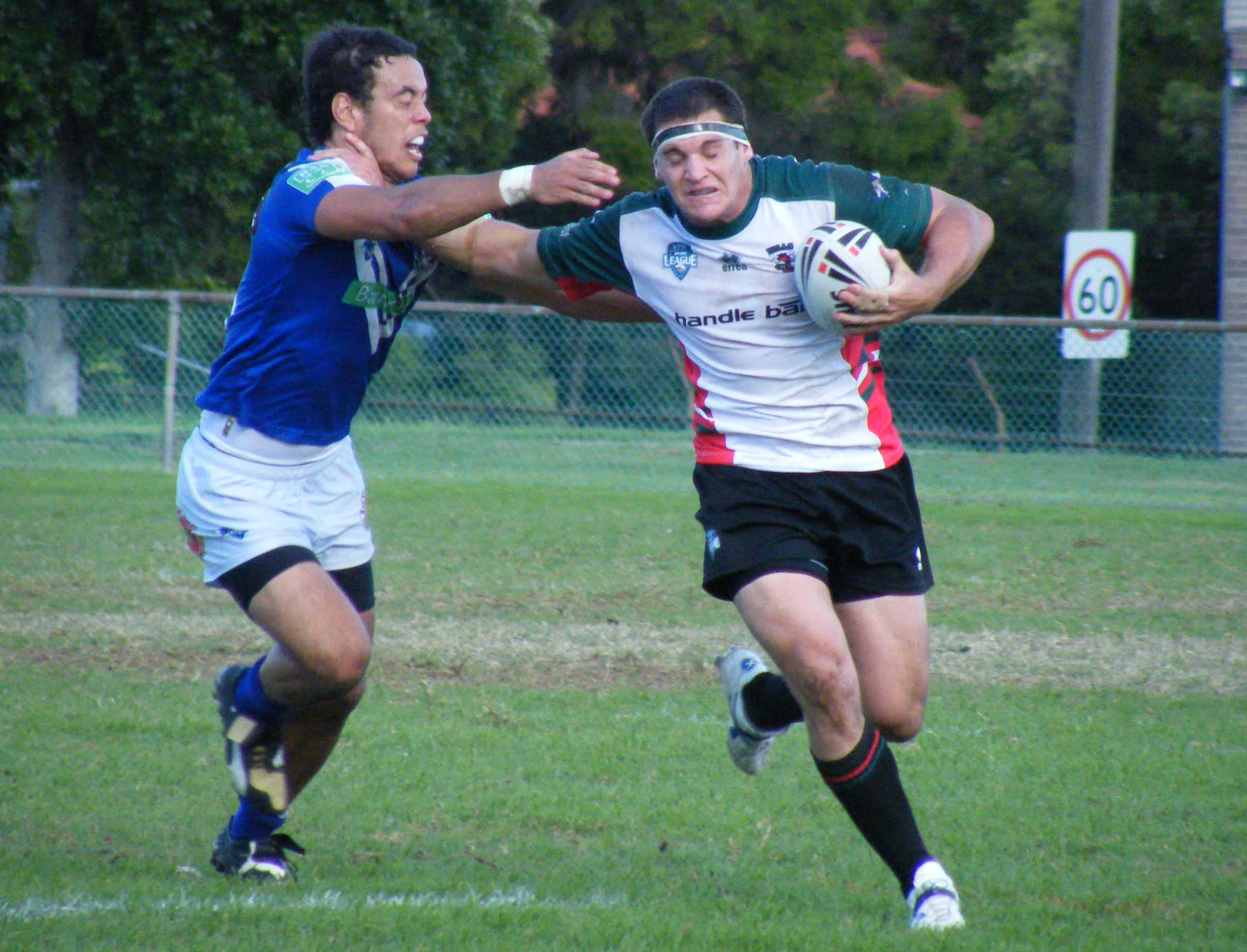 Danny Williams of Bankstown City Bulls fends off Isaac John of the Vulcans